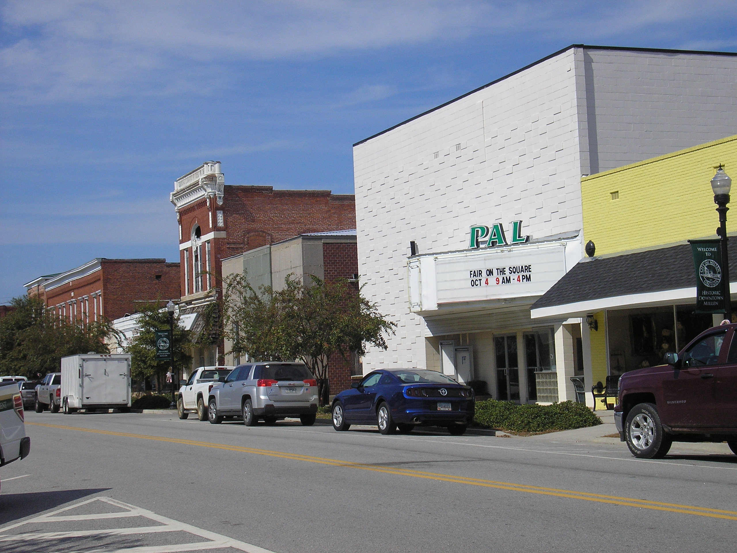 Downtown Millen Historic District